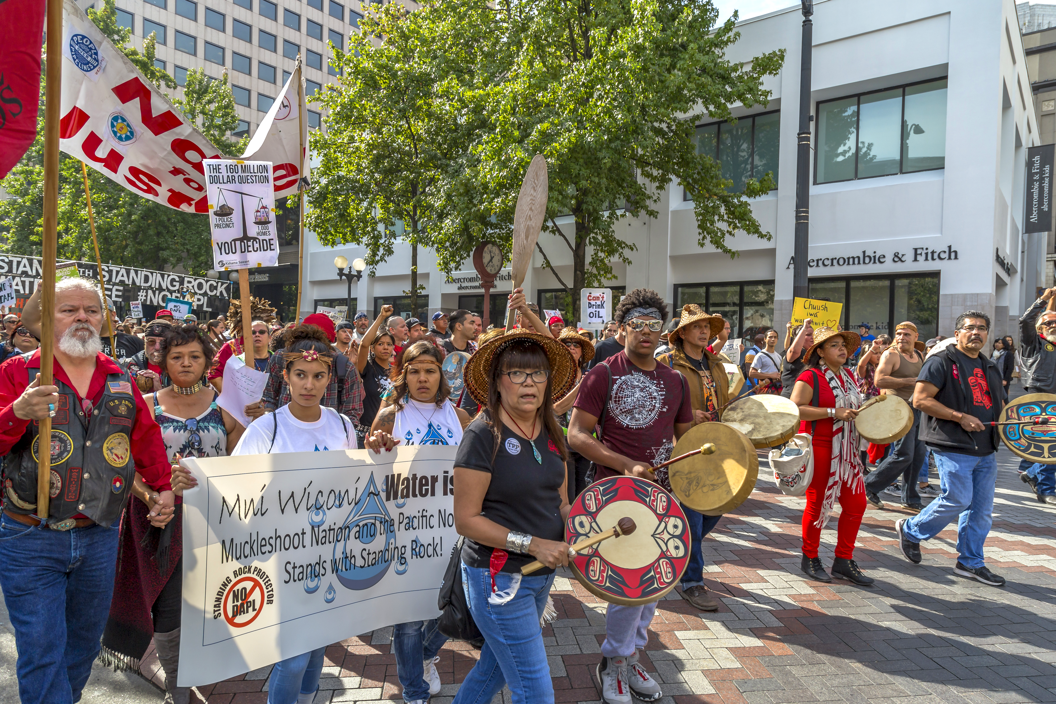 2016-09-16 Stands with Standing Rock! Peaceful March & Rally Seattle, WA. Taken by John Duffy. Drummers and other Indigenous activists march in solidarity with the people of the Standing Rock Sioux in their fight against the Dakota Access Pipeline.